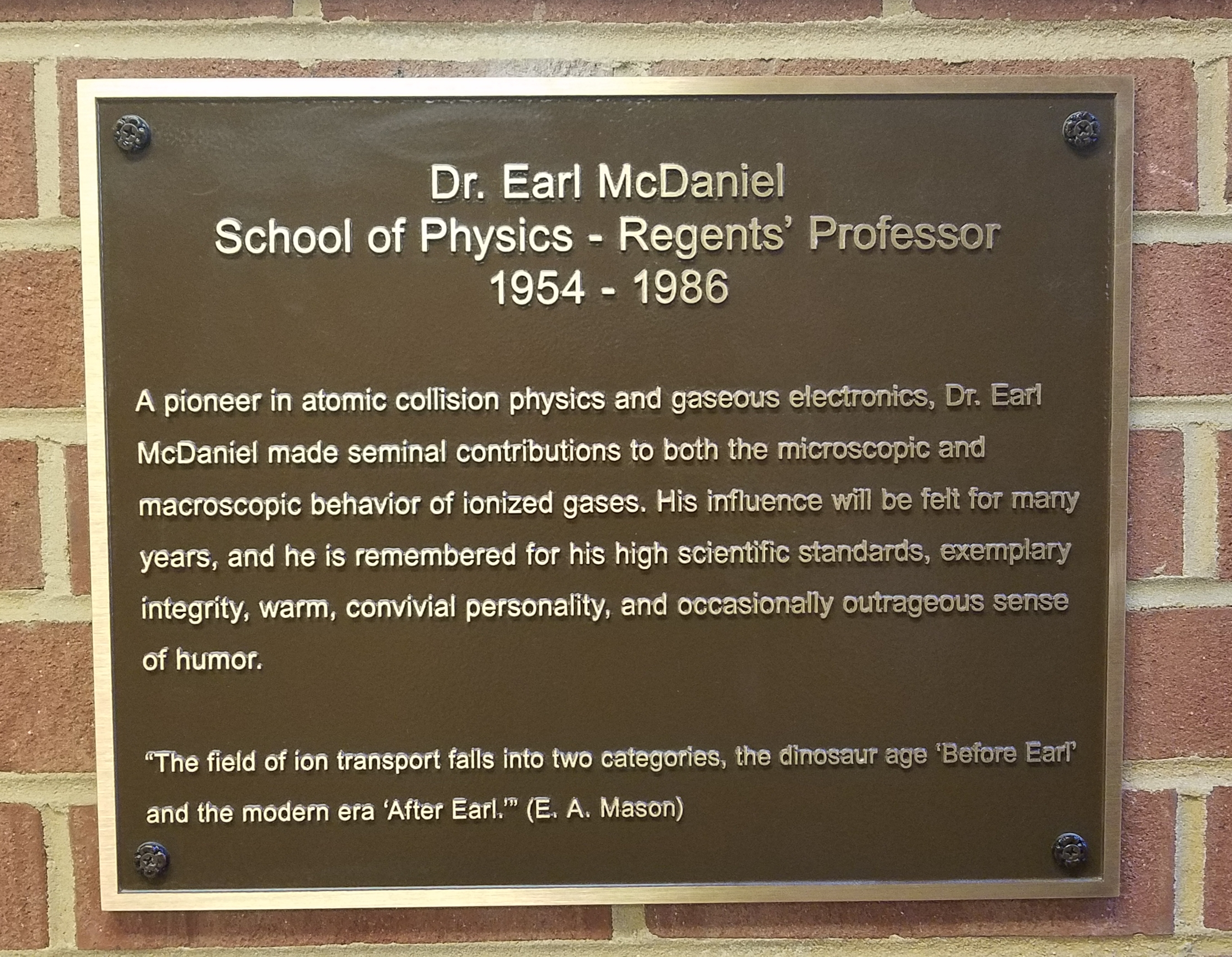 Plaque commemorating Earl McDaniel in the Howey Physics Building at Georgia Tech.